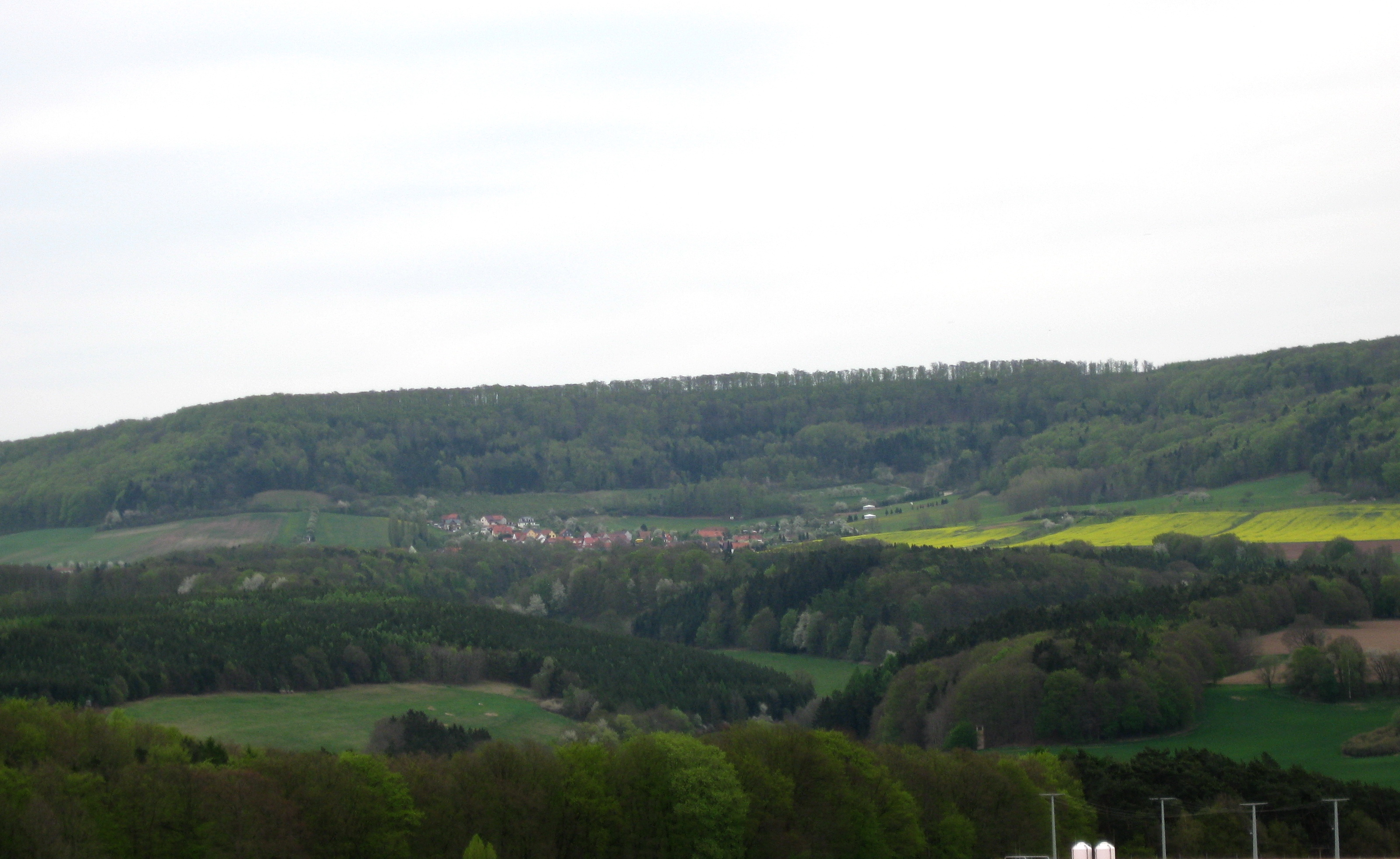 Thalwenden Höhberg